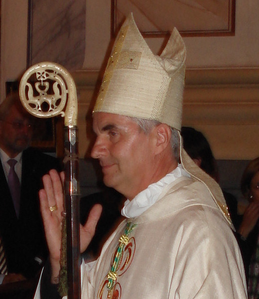 Columban Luser, abbot of the Göttweig Abbey